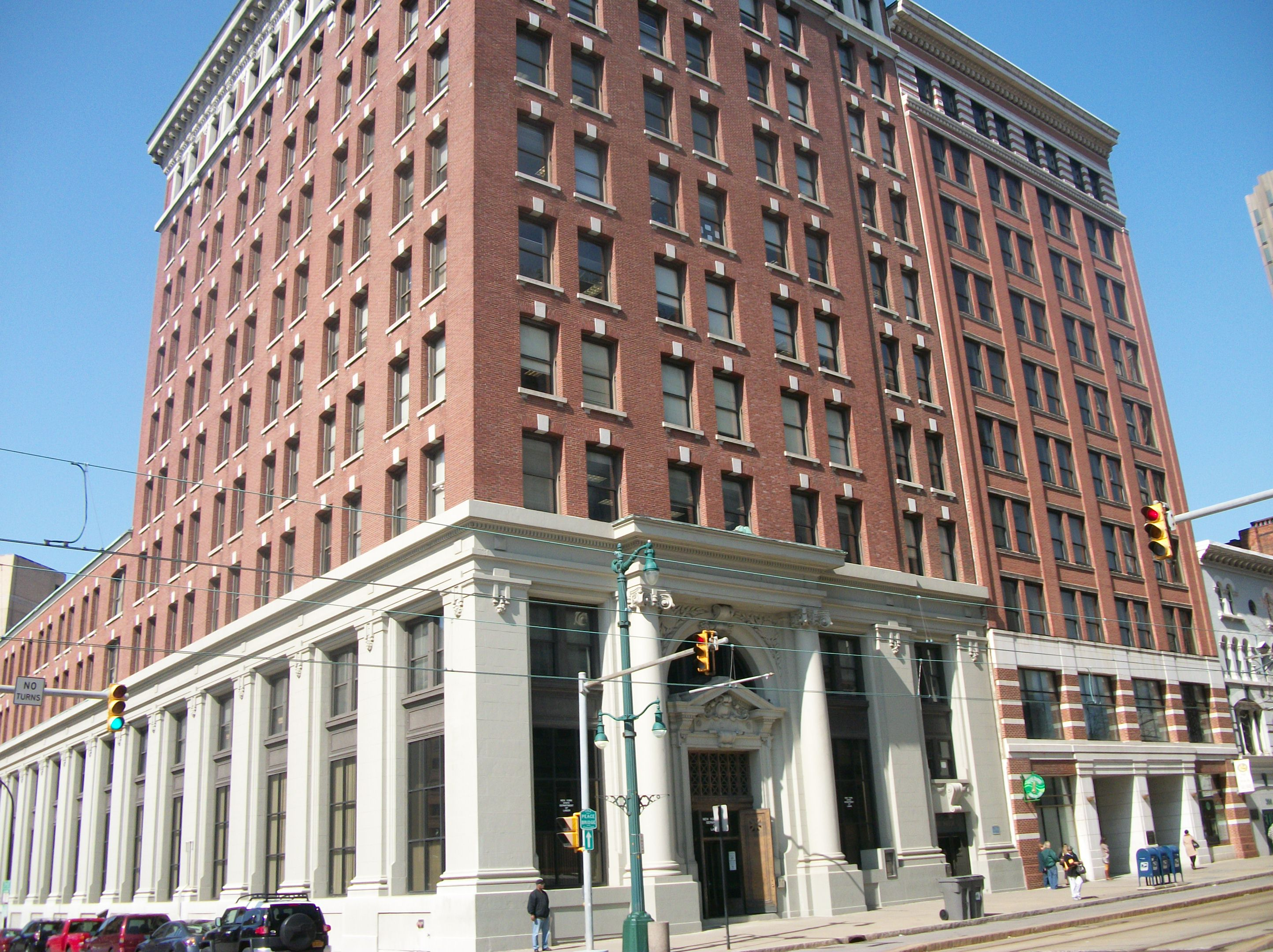 Swan Building 290 Main Street Buffalo, NY 14202